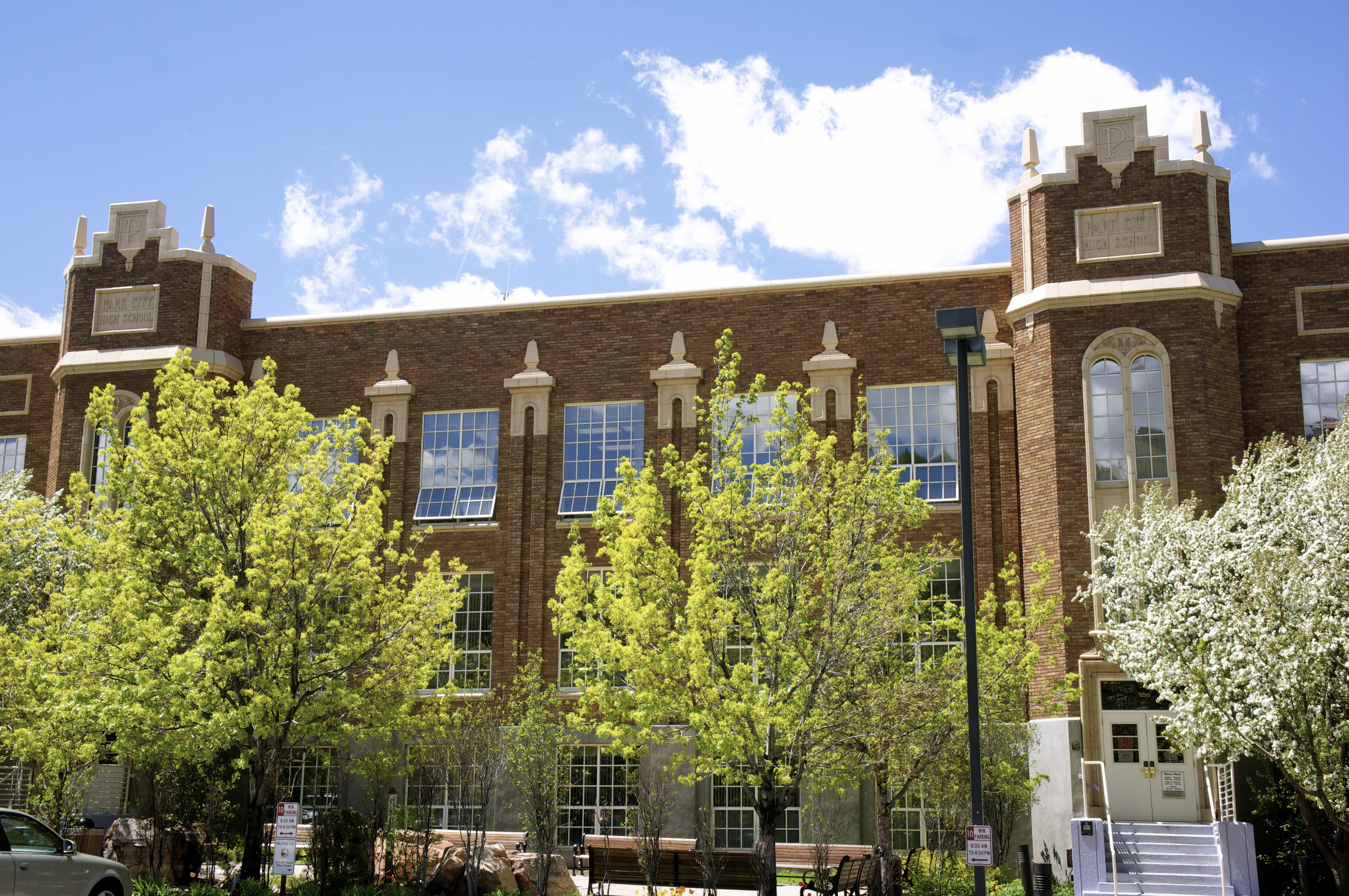 A photograph taken on May 22, 2013 of the Park City Library and Education Center, originally Park City High School.